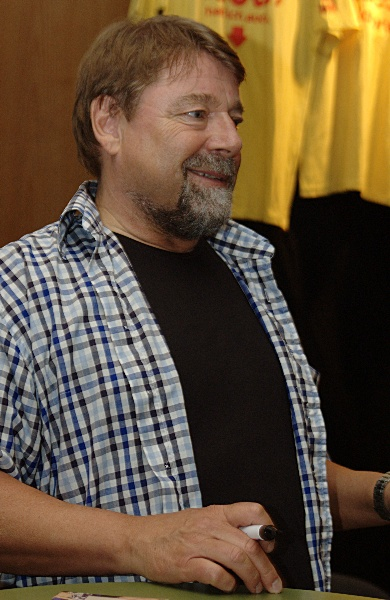 Jürgen von der Lippe, a german comedian